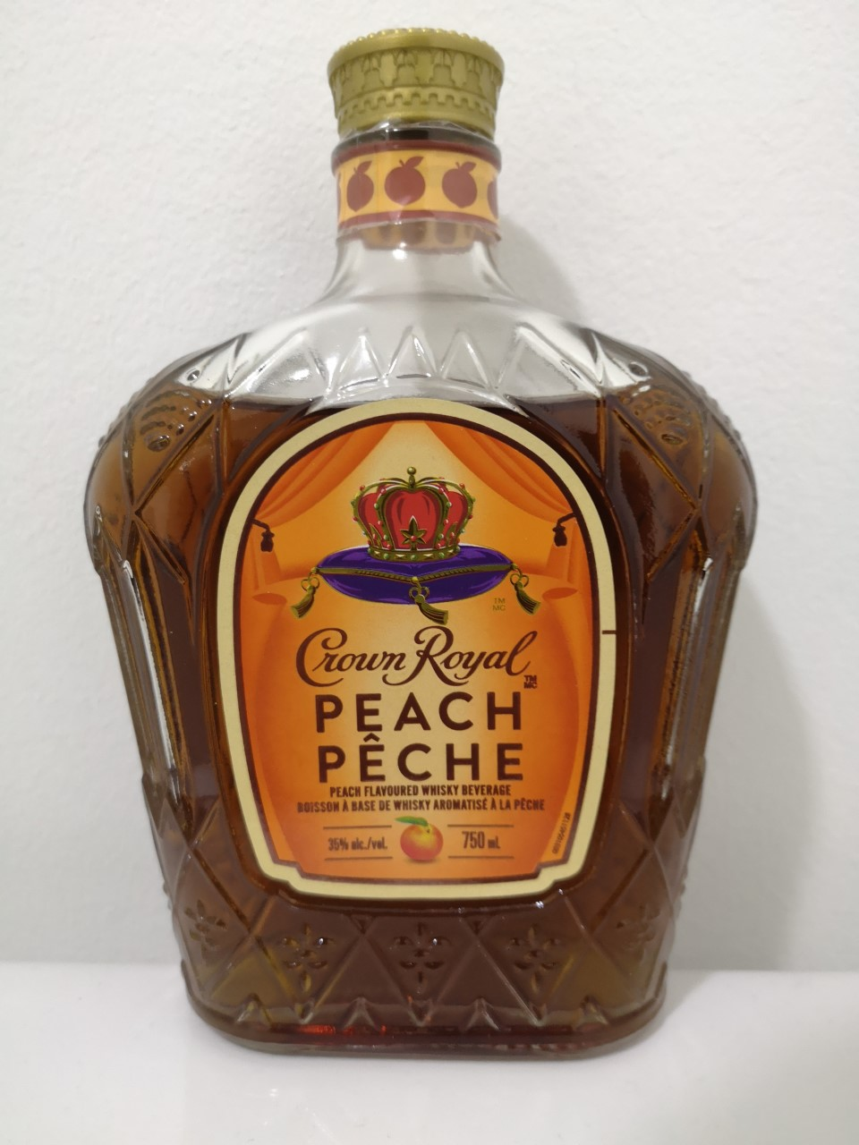 Crown Royal peach-flavoured whisky